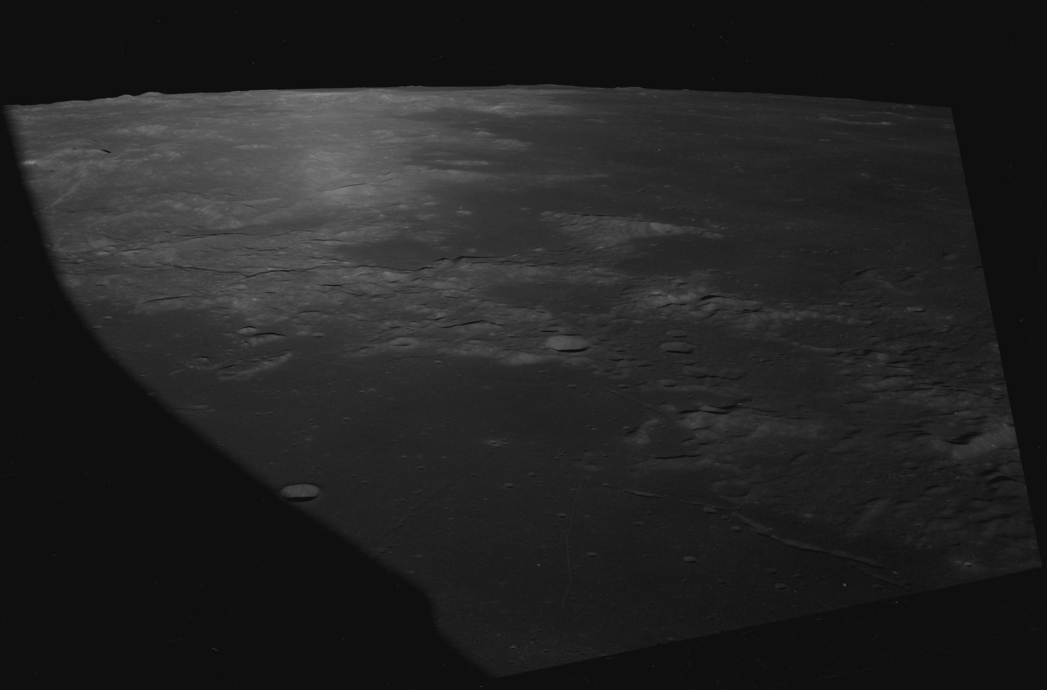 Oblique view of Montes Secchi, on the moon, facing west. Mare Fecunditatis is in foreground with Rimae Secchi, and Mare Tranquillitatis is in upper right. Only the southwest rim of the crater Secchi is visible at the right edge. Secchi Theta, better known as Mount Marylin, is just above right of center.